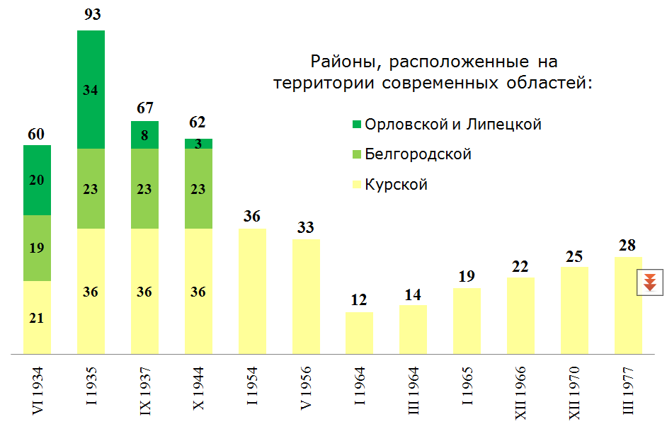 Changes of number of Kursk Oblast administrative districts